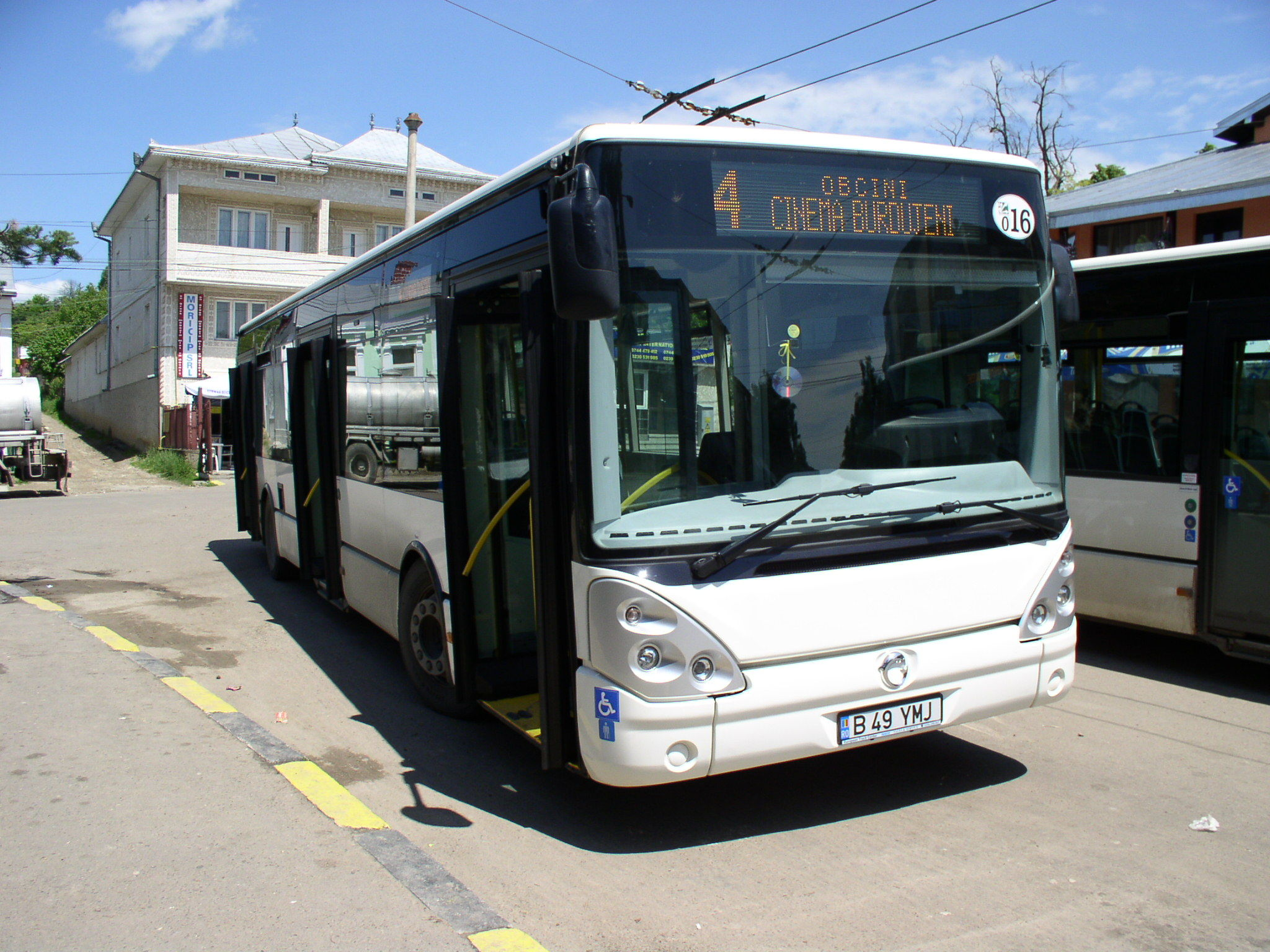 City bus in Suceava (Irisbus type).